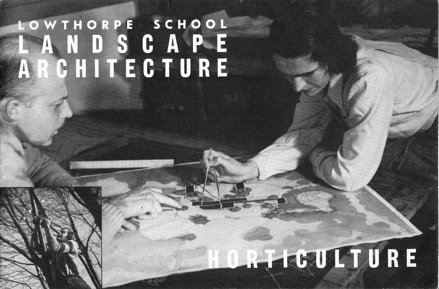 Scan by contributor of front of 1920s brochure for Lowthorpe School of Landscape Architecture, Groton, Massachusetts attended by his mother in the 1920s.